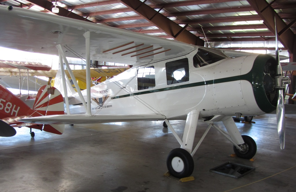 Waco ARE